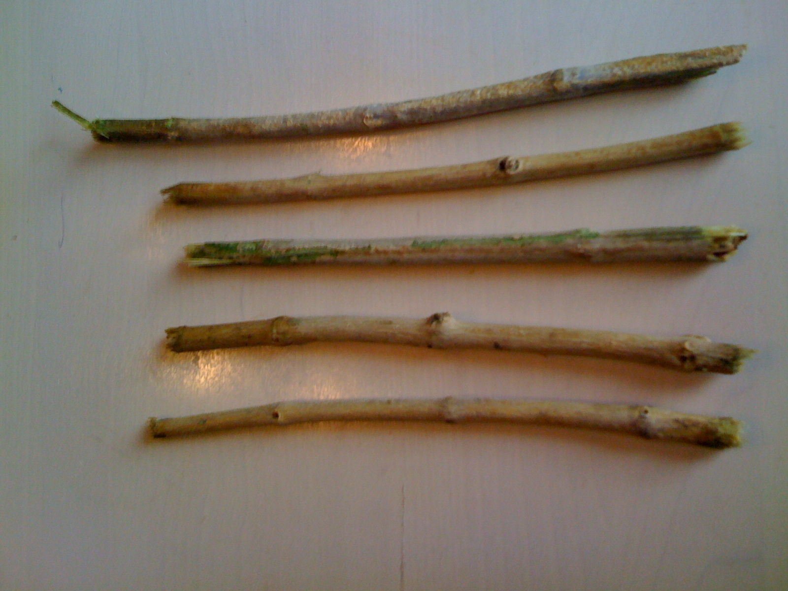 Traditional Somali miswak (rumeey) sticks.